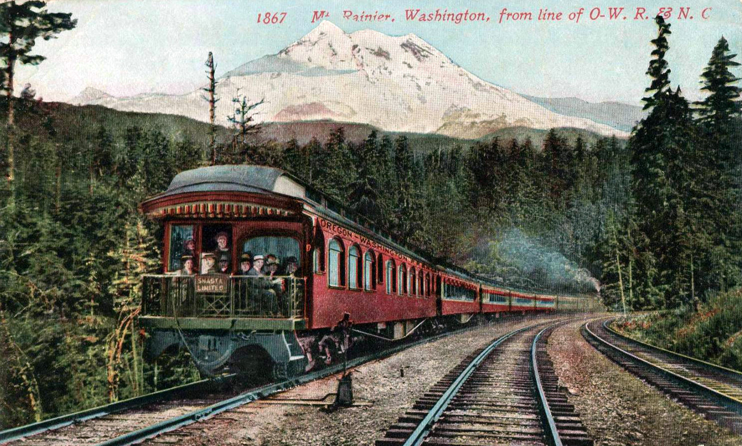 Postcard depiction of the Shasta Limited at Mount Rainier. The railroad it's shown as traveling on is the Oregon-Washington Railroad and Navigation Company. The name of the railroad was originally the Oregeon Railroad and Navigation Company. By 1910 as Union Pacific bought a substantial stake in it renamed it. By 1936, UP was using the line under the UP name for its access to the Pacific Northwest. It seems that Southern Pacific, who operated the Shasta, must have had some type of agreement with the WOR&N in the train's earlier years.